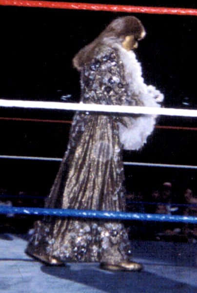 Goldust at a WWF event in 1995